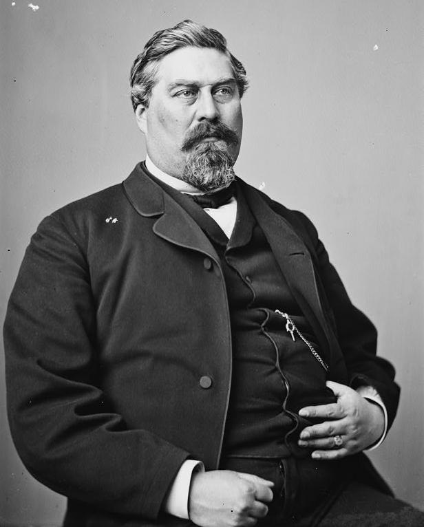 Gen. D.B. [Delos Bennet] Sackett.